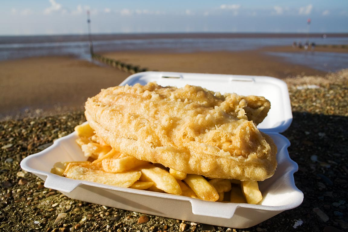 Fish and chips on the seafront at Hunstanton, Norfolk UK. In this instance the fish is deep fried plaice.